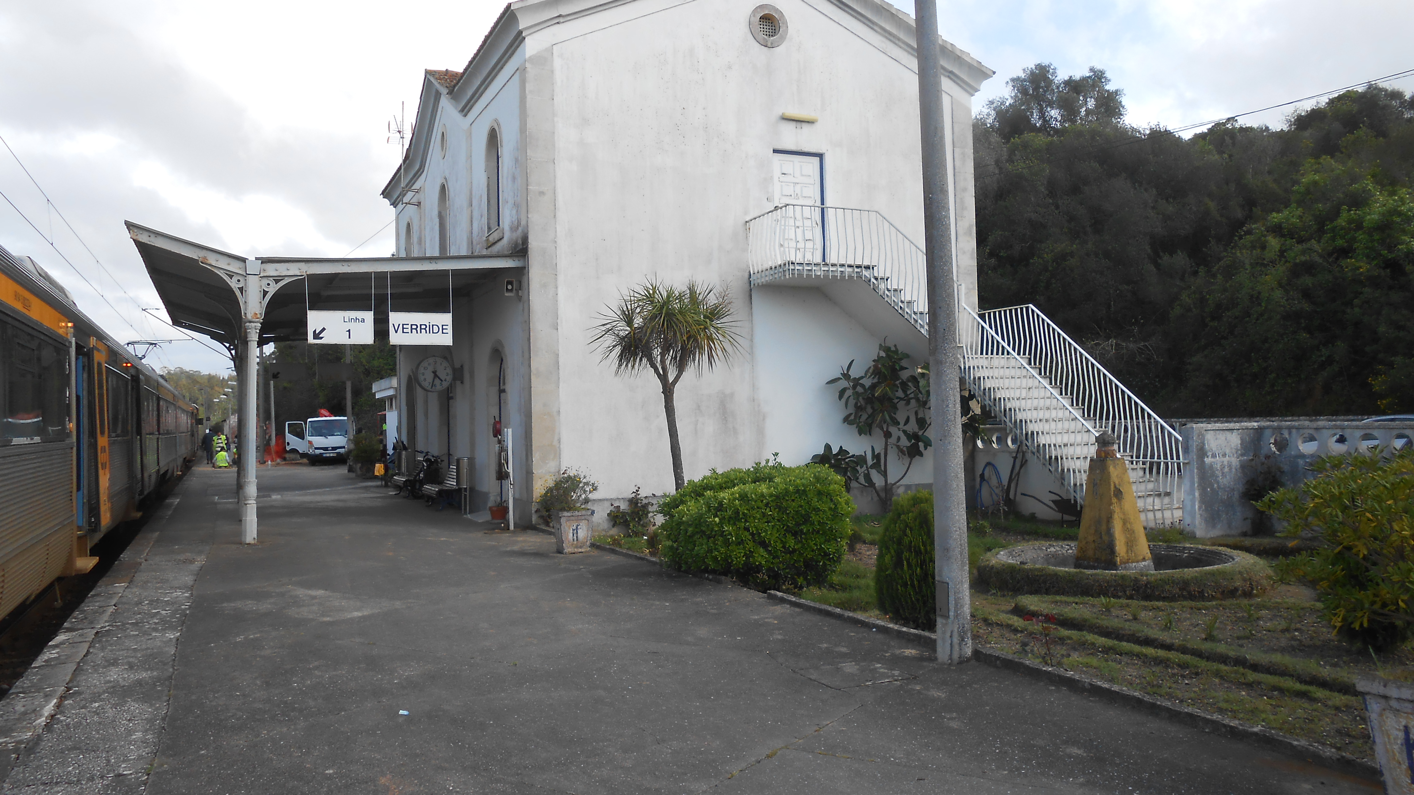 The Verride train station at the Ramal de Alfarelos line, in the municipality of Montemor-o-Velho, district of Coimbra, Portugal